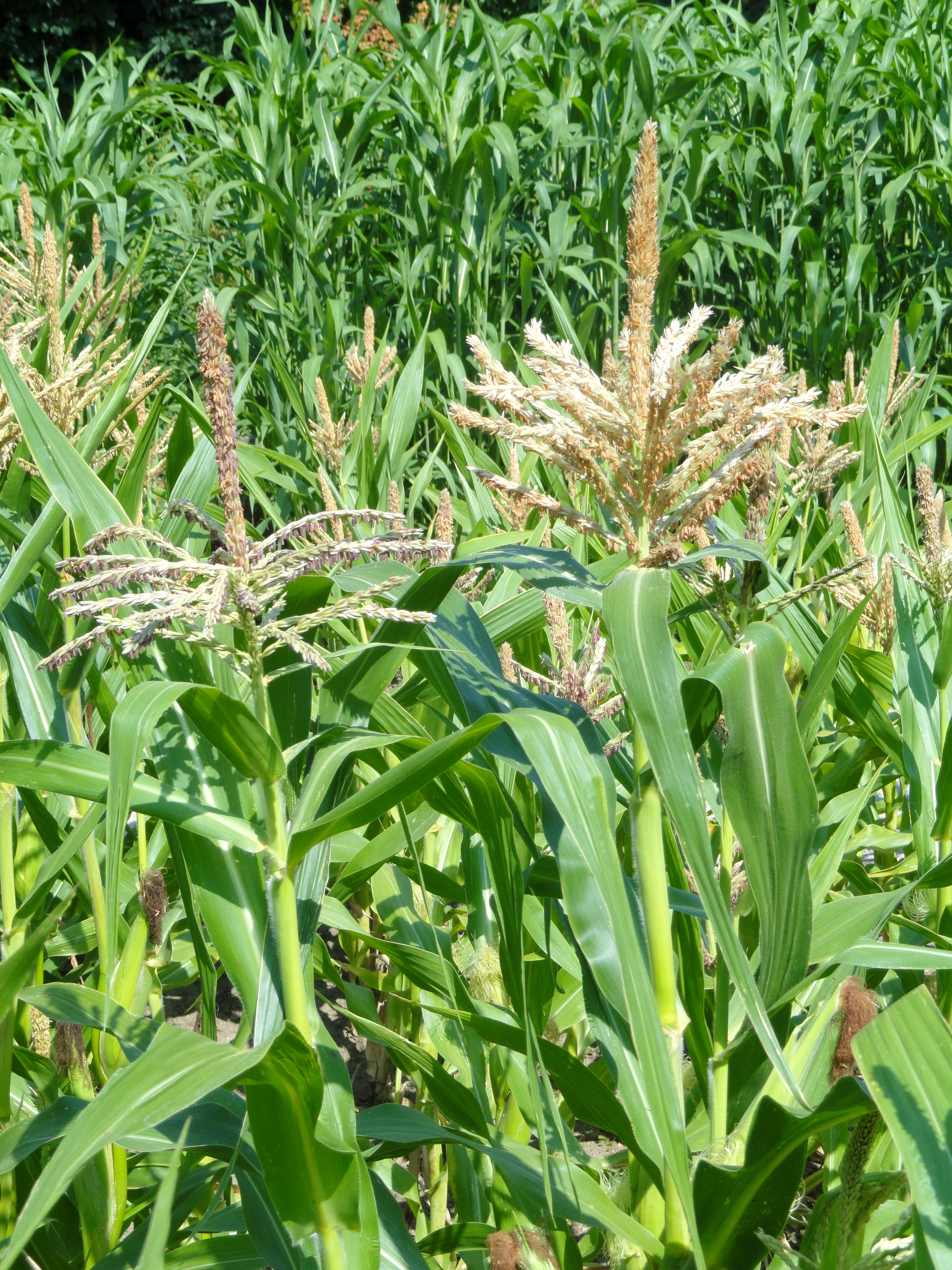 Botanical specimen in the Botanischer Garten, Frankfurt am Main, Germany.